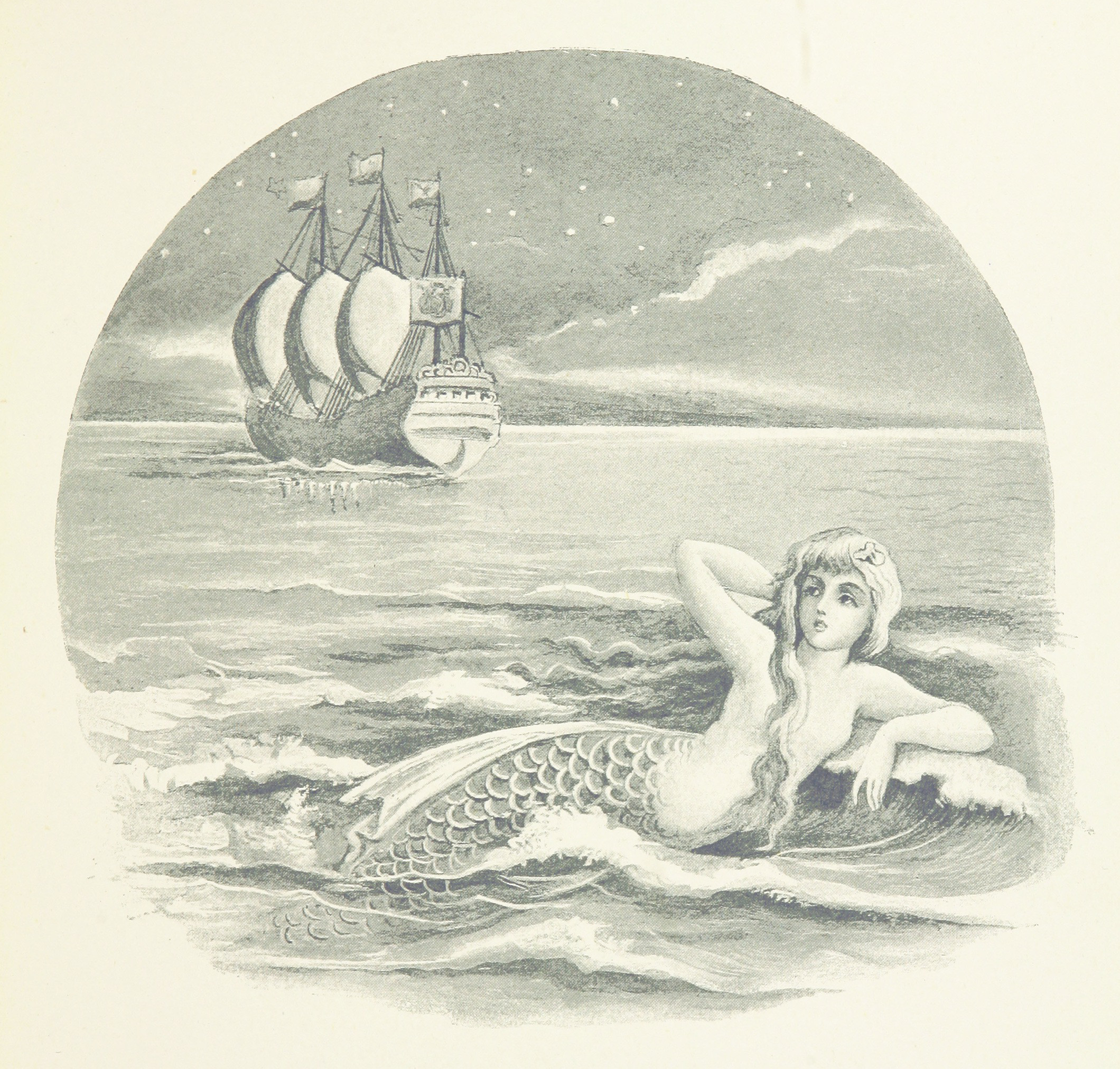 Image taken from: Title: "The Story of the Mermaiden. Adapted from the German of Hans Andersen, by E. Ashe ... Illustrated by Laura Troubridge. [In verse.]", "Eventyr. Single Tales" Author: Andersen, H. C. (Hans Christian) Contributor: ASHE, E. Contributor: TROUBRIDGE, Laura Elizabeth Rachel. Shelfmark: "British Library HMNTS 11651.l.12." Page: 21 Place of Publishing: London Date of Publishing: 1888 Publisher: Griffith, Farran & Co. Issuance: monographic Identifier: 000077405 Explore: Find this item in the British Library catalogue, 'Explore'. Download the PDF for this book (volume: 0) Image found on book scan 21 (NB not necessarily a page number) Download the OCR-derived text for this volume: (plain text) or (json) Click here to see all the illustrations in this book and click here to browse other illustrations published in books in the same year. Order a higher quality version from here.